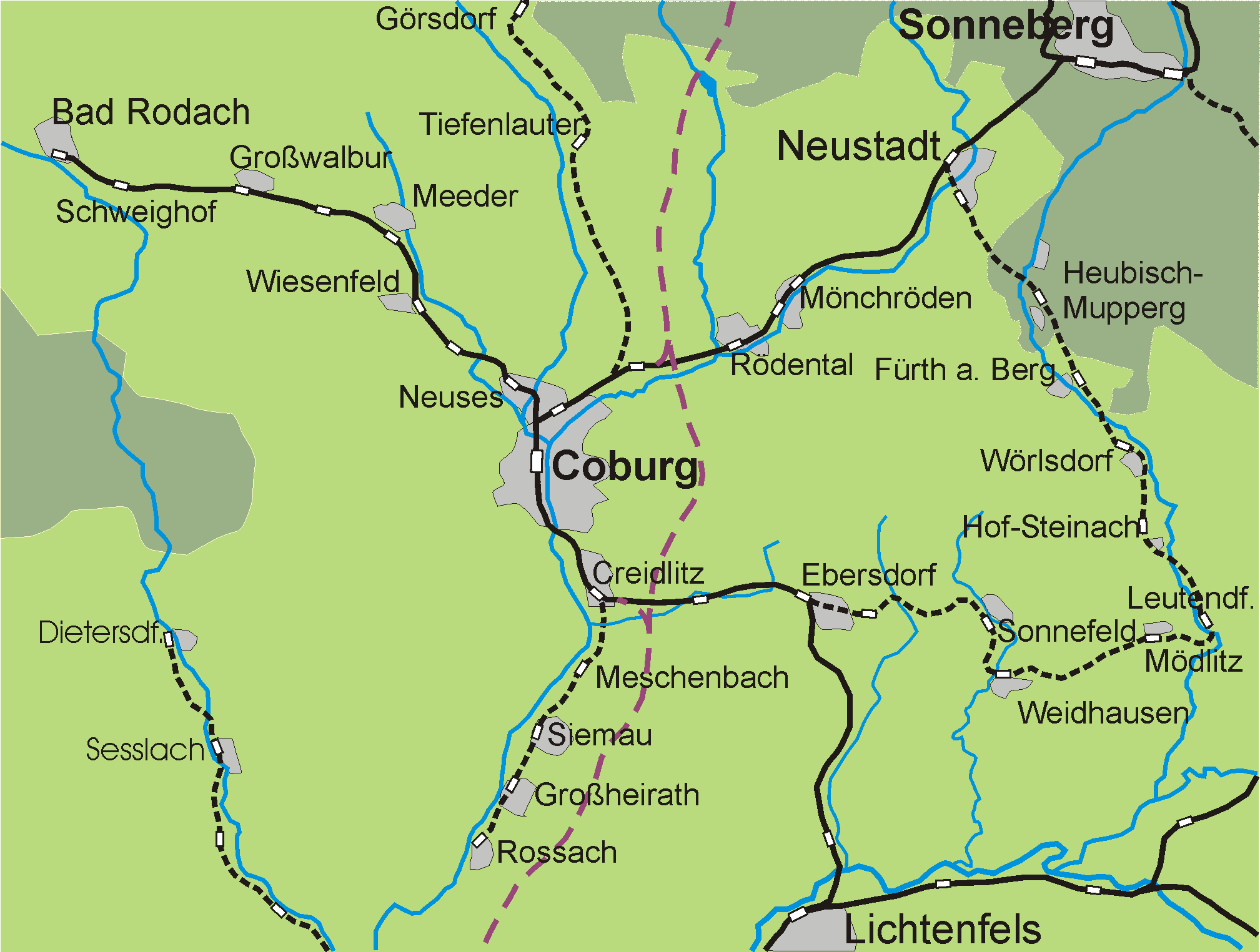 railway lines at Coburg Country.